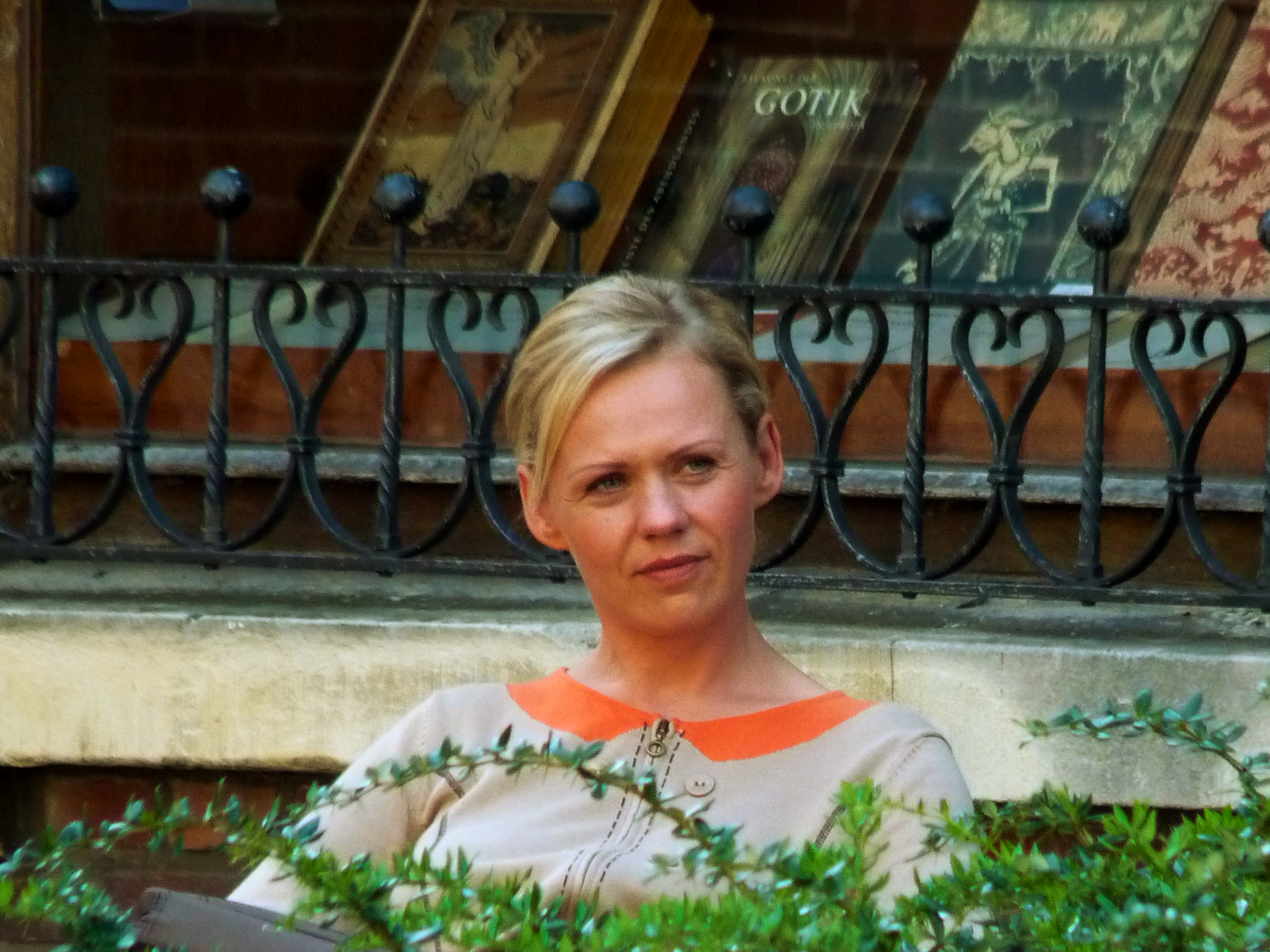 shooting of episode Hengstparade of TV series Wilsberg in Münster